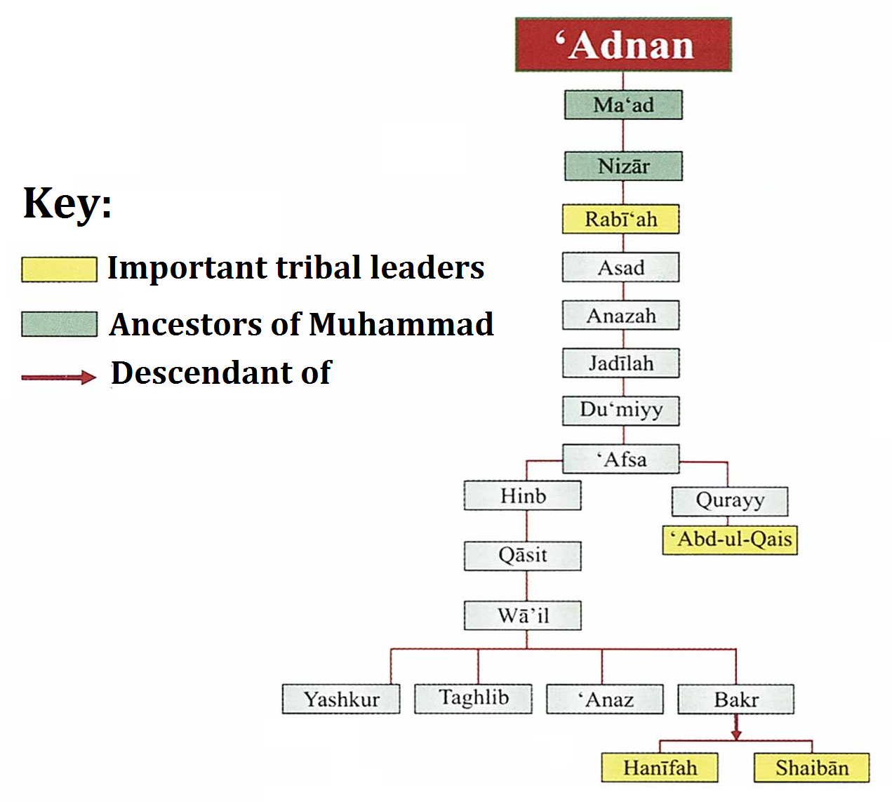 A family tree depicting the ancestry and descendants of the Banu Rabi'ah.